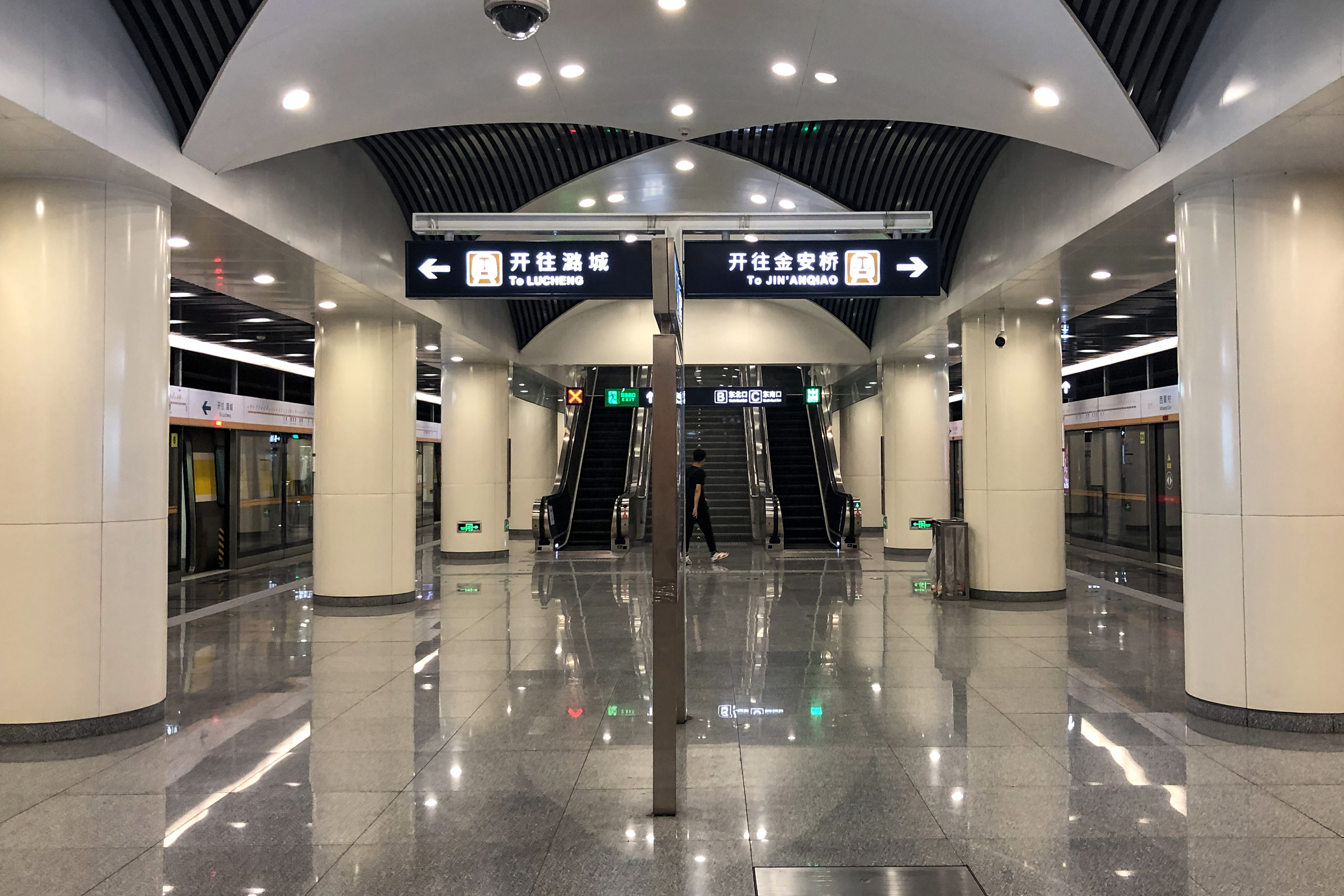 Sai Wong Tsuen Station, no interchange for CR...